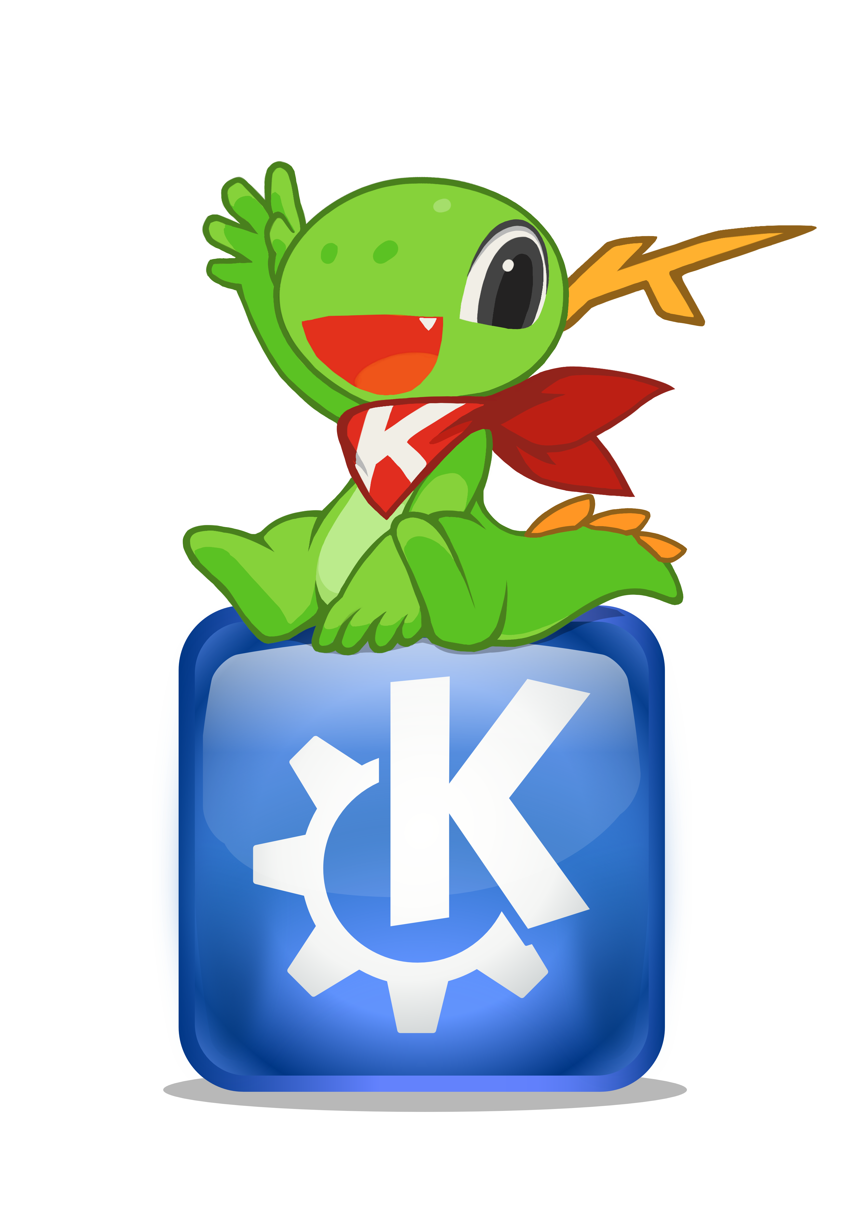 KDE Mascot Konqi with KDE Oxygen logo.